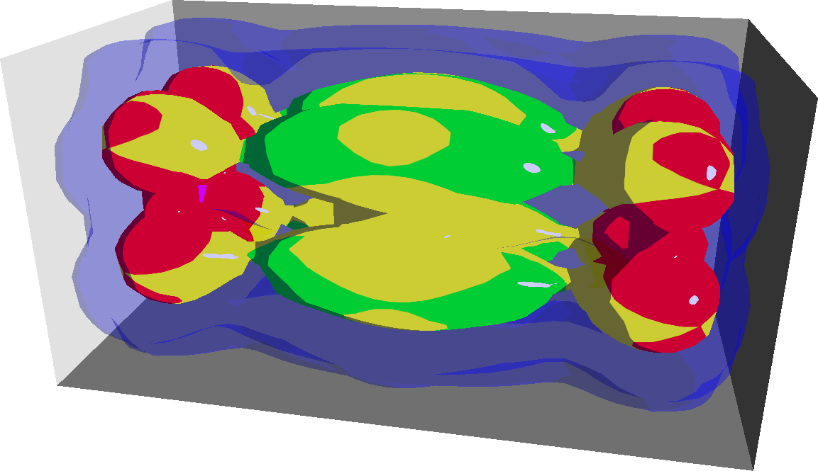 This is a cel shaded rendering of two isosurfaces, one opaque and one semi-transparent, of the probability density of a particle in a quantum mechanical system. The image was taken as a screenshot in a simulation of a particle in a box. The colors are obtained from the phase angle of the probability amplitude, which is a complex-valued function.